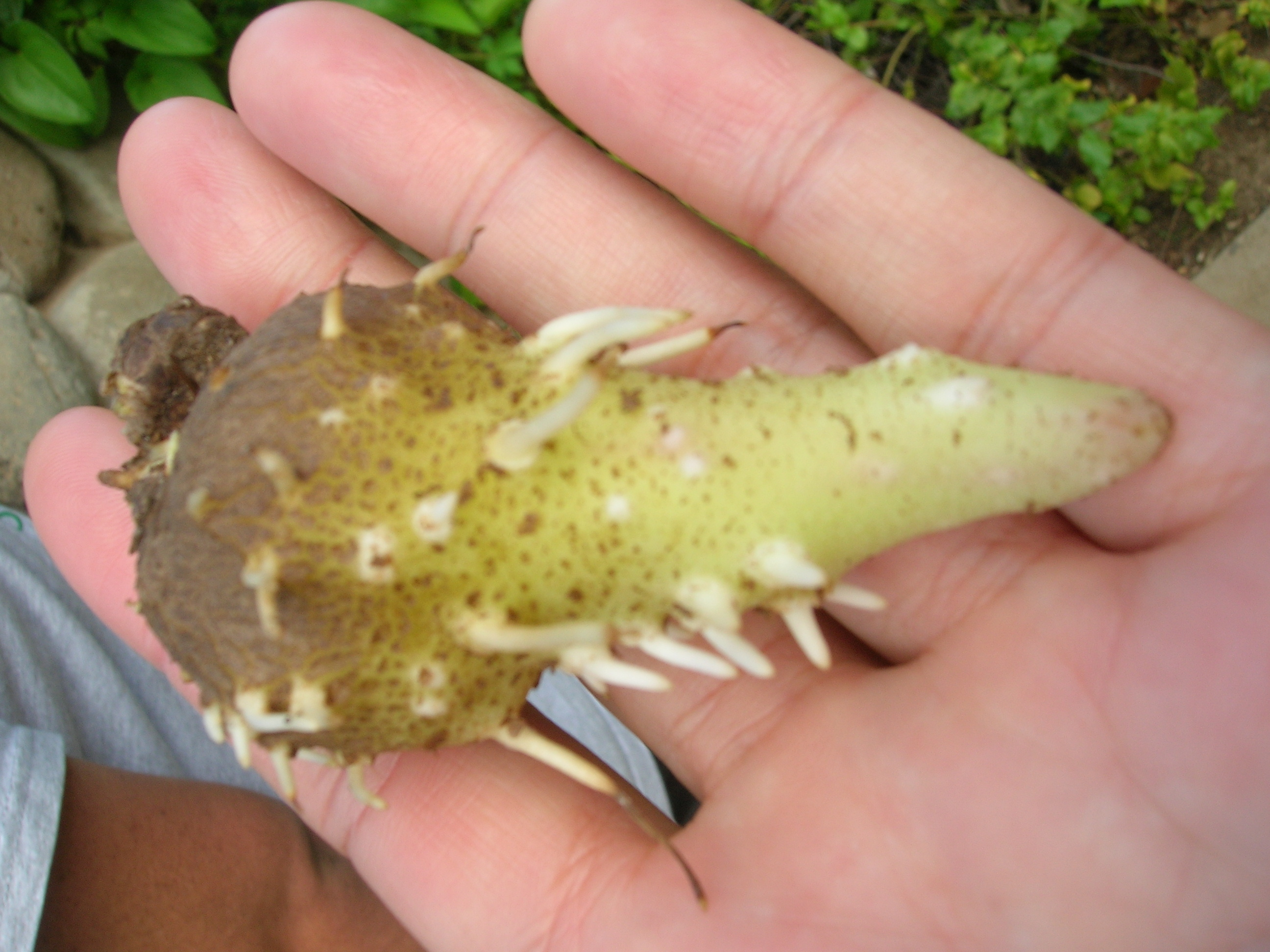 Dioscorea alata (yamlet). Location: Maui, Maui Nui Botanical Garden